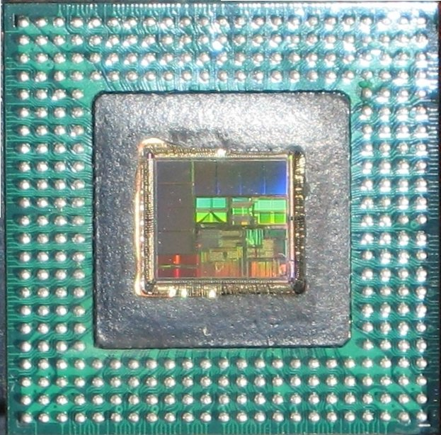 Die Photo of QED RM7000 microprocessor